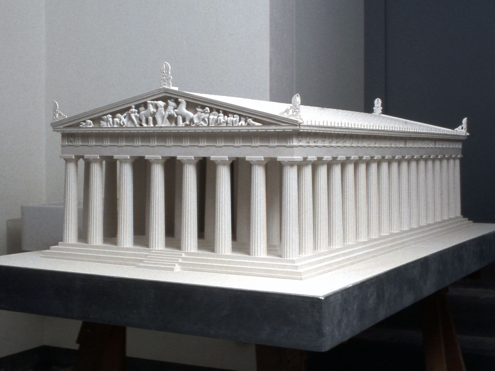 Model in Alabaster plaster of the Parthenon in Athens